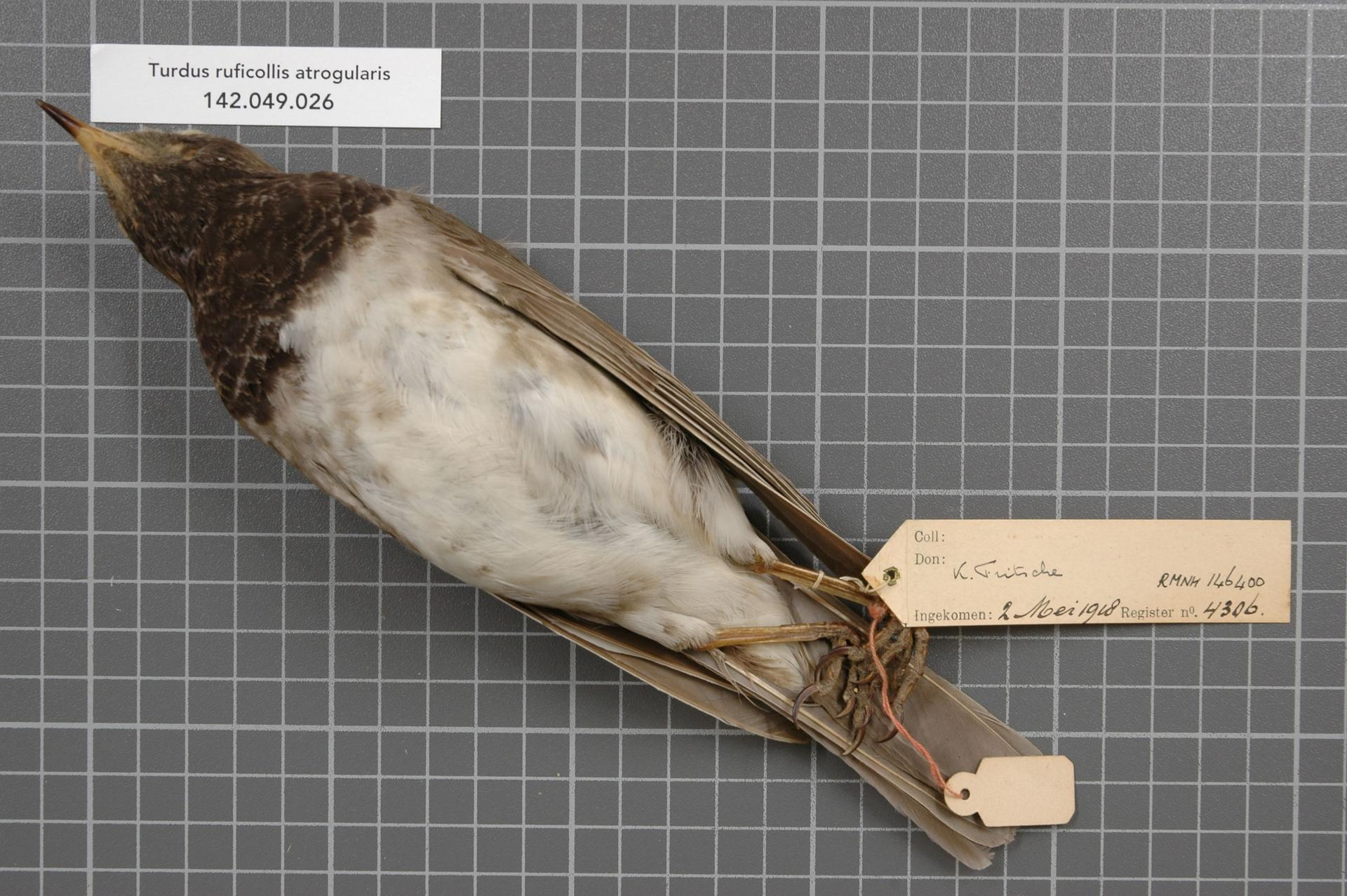 Turdus ruficollis atrogularis Jarocki, 1819